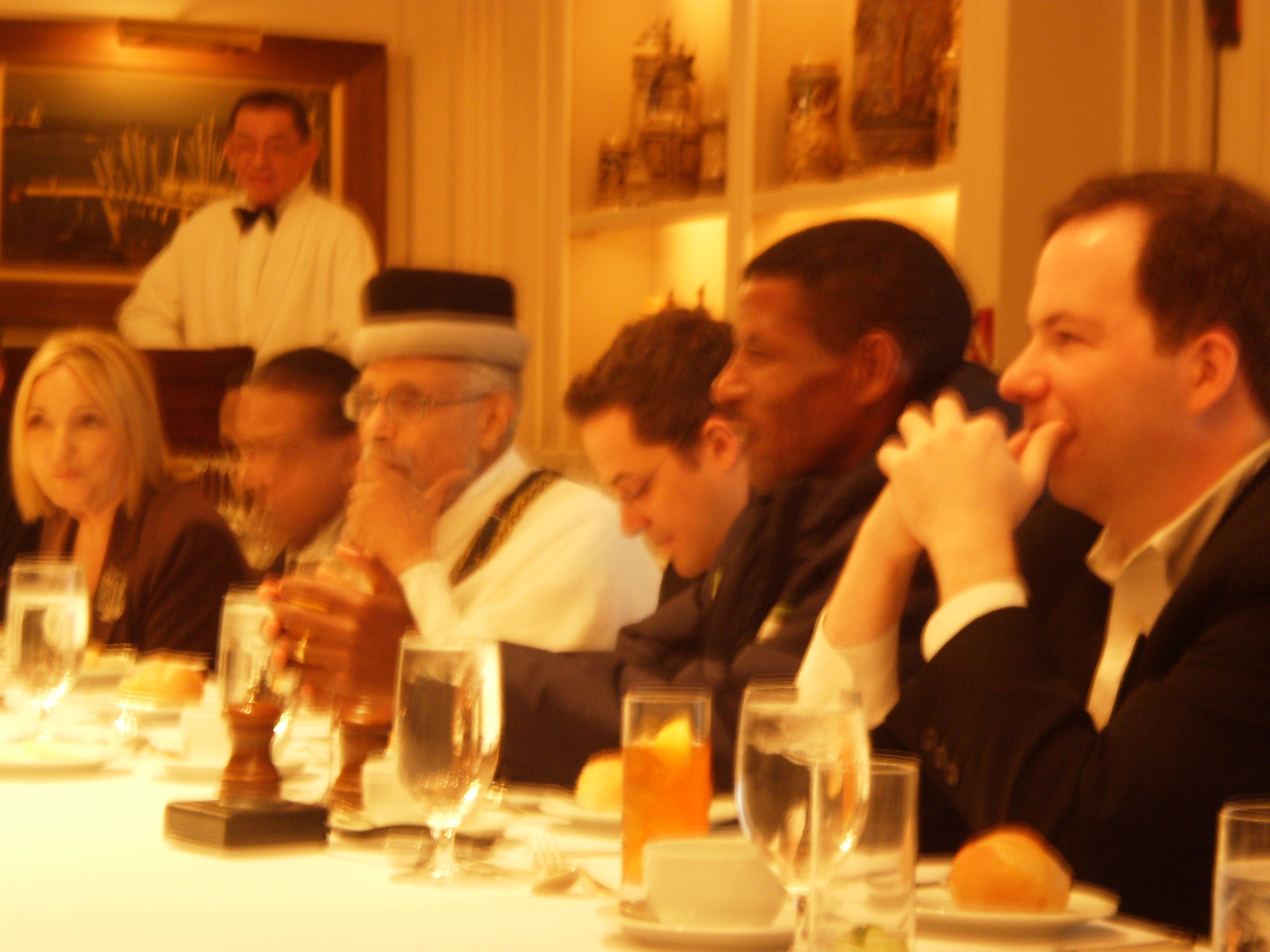 Ephraim Isaac and Haile Gebresalassie